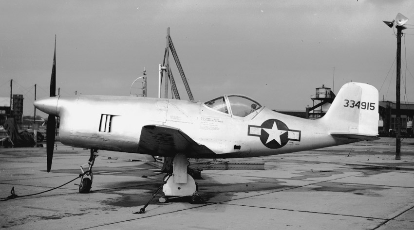 Experimental light weight fighter with a Ranger engine at Wright Field in October 1945.